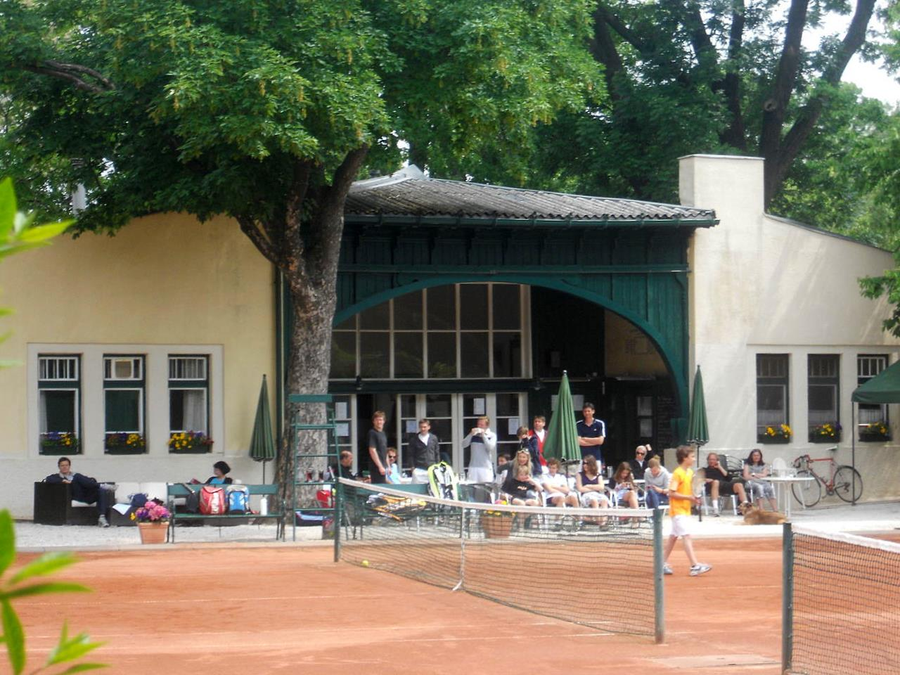 The former building of the court and state officials' cycling club by Josef Olbrich in Vienna (1898)